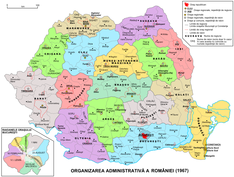 The administrative territorial units of Peoples' Republic of Romania (Socialist Republic of Romania from 1965) between 1960-1968